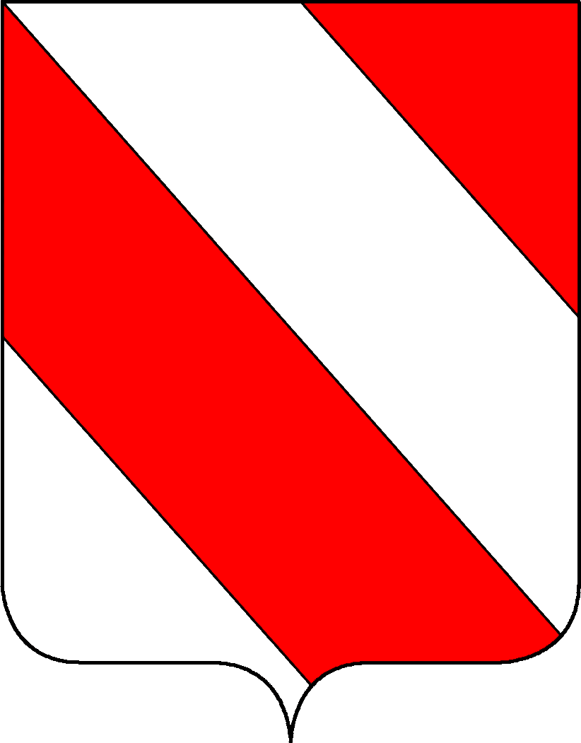 Emo Family coat of arms